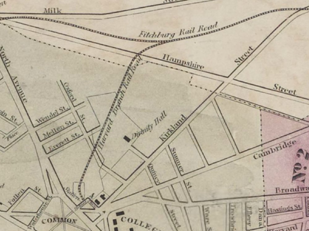 Part of an 1849 map of Cambridge, showing the Harvard Branch Railroad